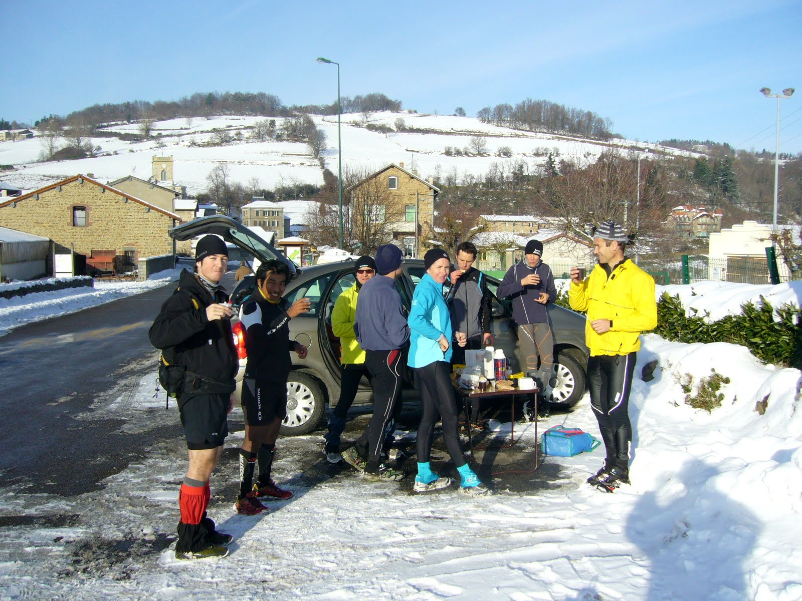 Resupply points at St. Catherine at the 2010 LyonSaintéLyon